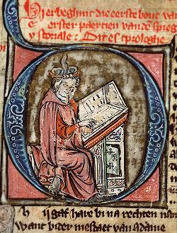 The Flemish author, Jacob van Maerlant (born 1230-1240 near Bruges - died 1288-1300 in Damme). Illustration from his work: Spiegel Historiael (West Flanders 1325-1335). Manuscript at the Royal Library, The Hague, on loan from the Royal Netherlands Academy of Arts and Sciences